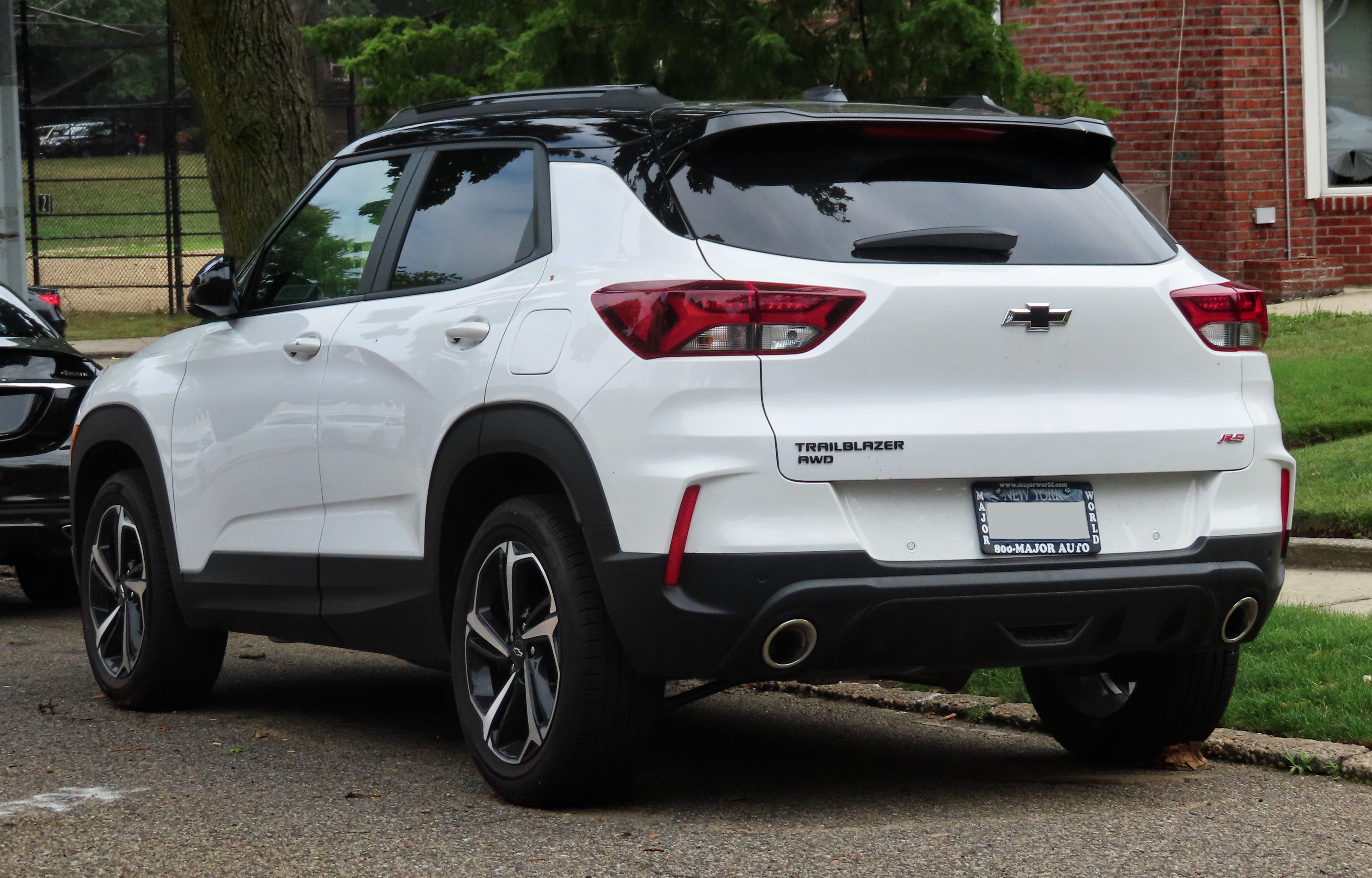 A 2021 Chevrolet TrailBlazer RS photographed in Kew Gardens Hills, Queens, New York, USA